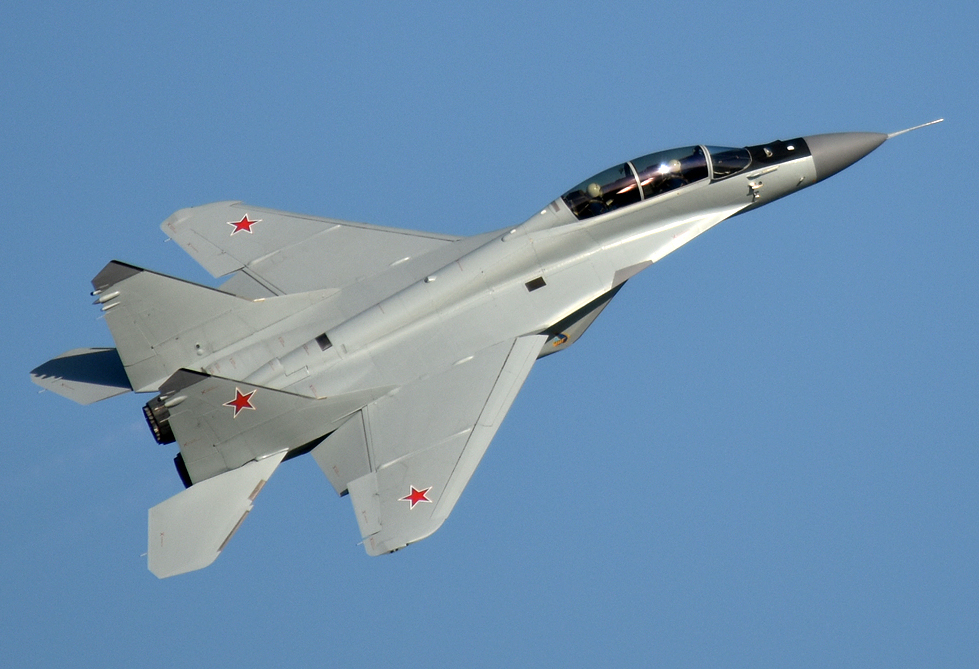 Russian Air Force, 747, Mikoyan-Gurevich MiG-29M2